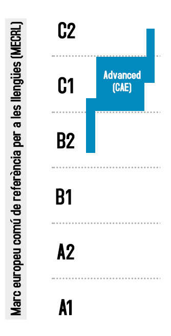 Comparison between the exam Cambridge